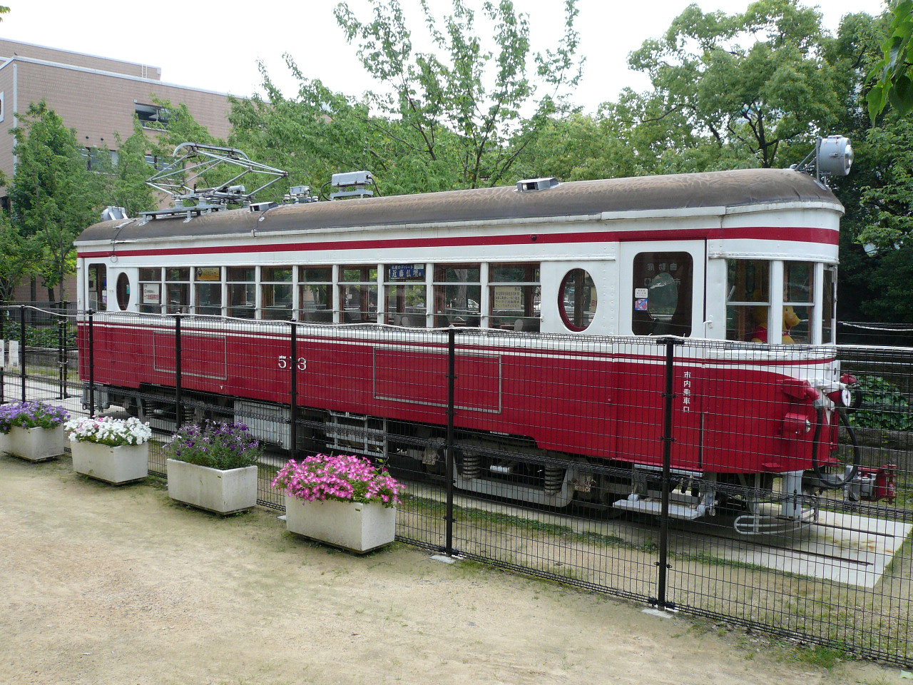 This is a picture of a streetcar that used to run through Gifu City. I took it in July 2007.